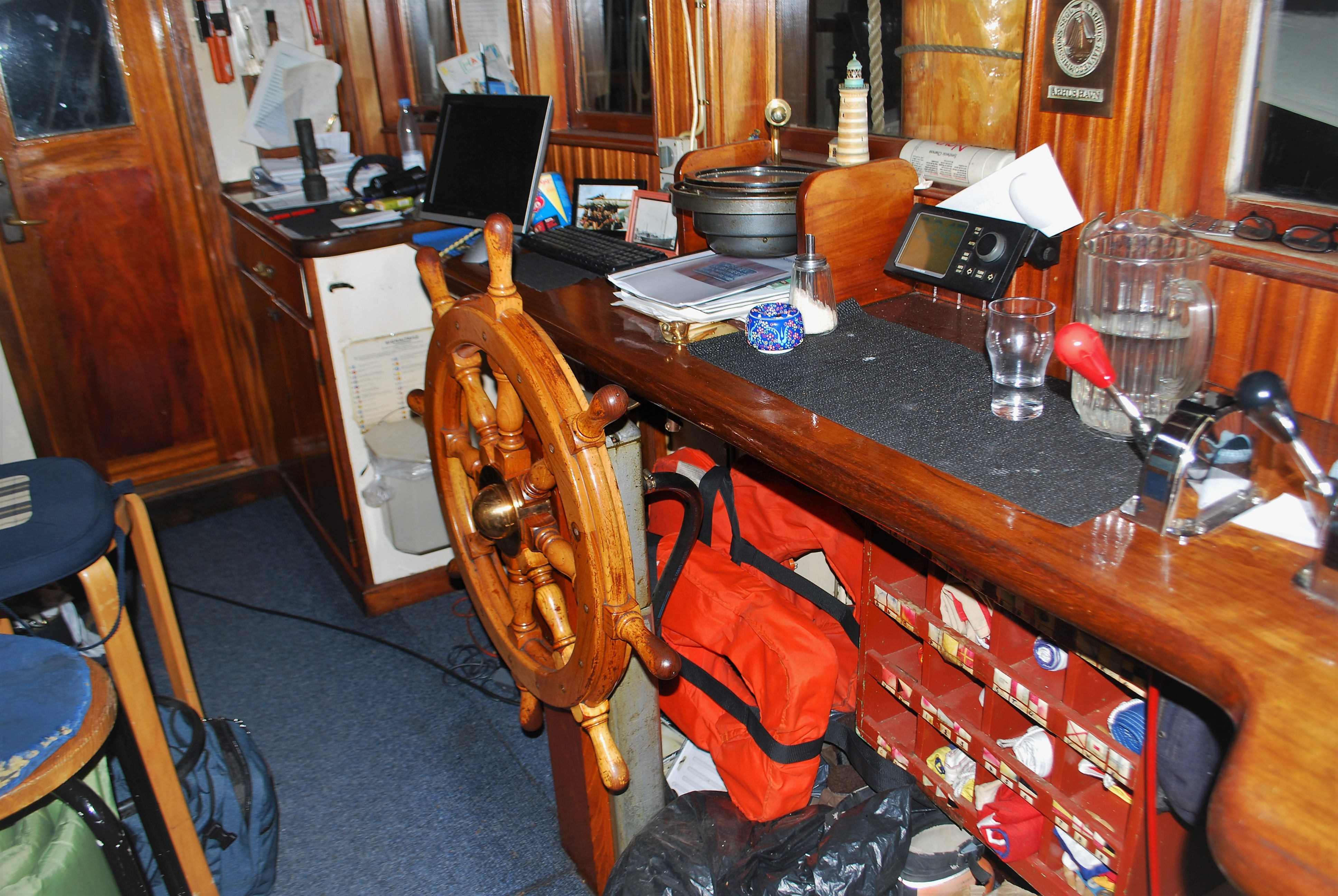 Galeasen Havet, Assens, Danmark. The schooner Havet, Denmark